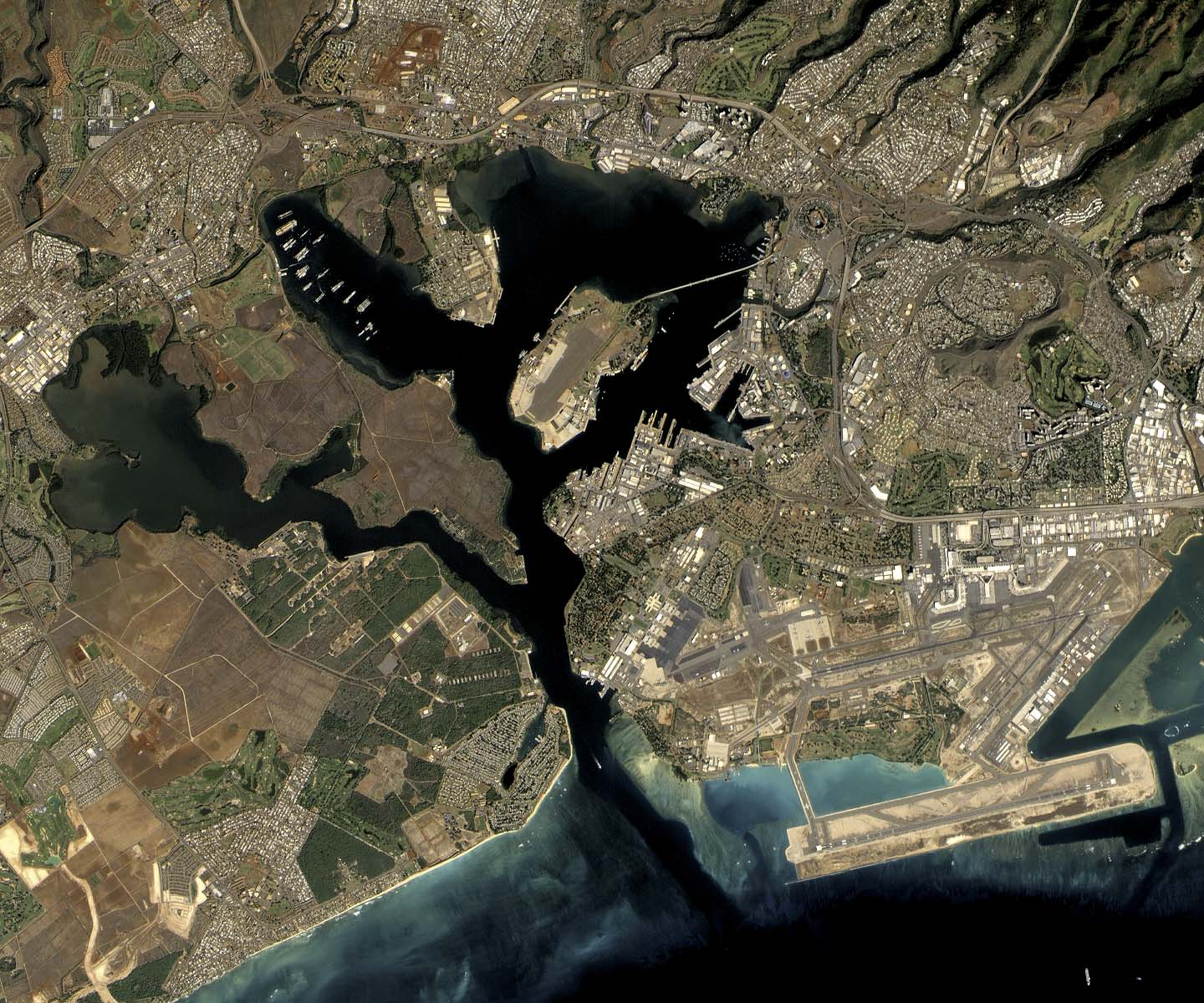 Composite image in simulated real colours of Pearl Harbor, Hawaii (USA), taken by the EO-1 satellite.